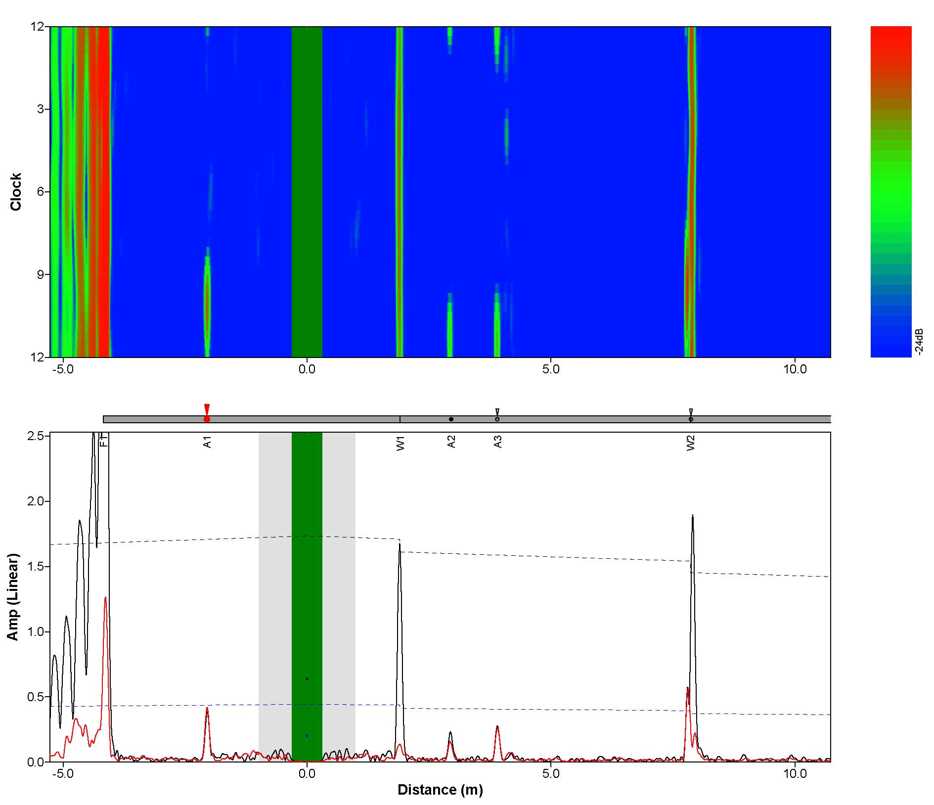 This shows the typcial result of GWT.